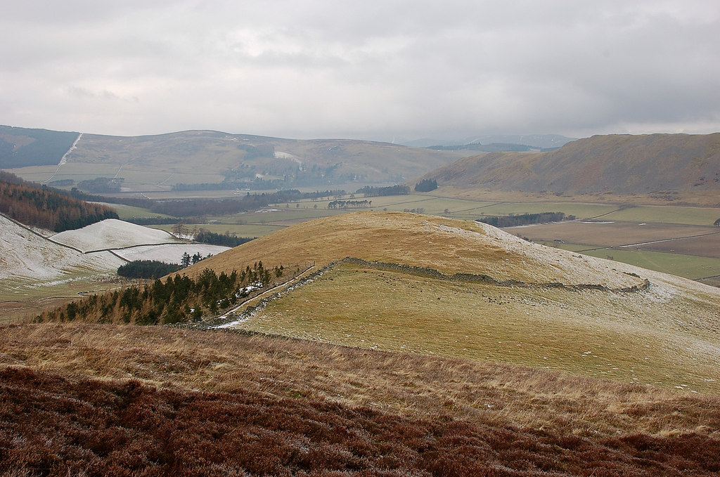 Fort and settlement site, Chester Hill The site is the grassy area within the broken wall. However, there's a substantial wall topped by a barbed wire strand intervening, so closer inspection was ruled out. Cademuir Hill is on the right and the Manor Valley is in the background.